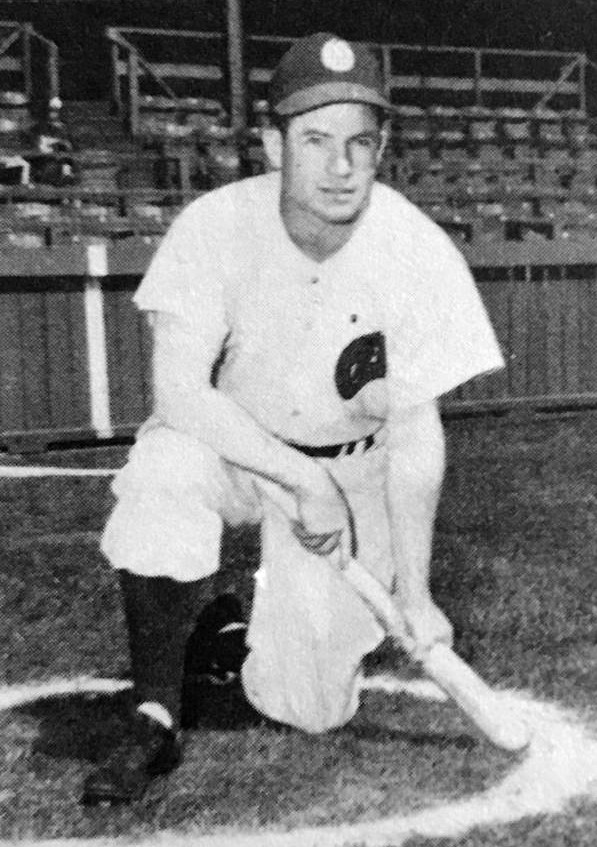 Brooks Holder, a former professional baseball player.